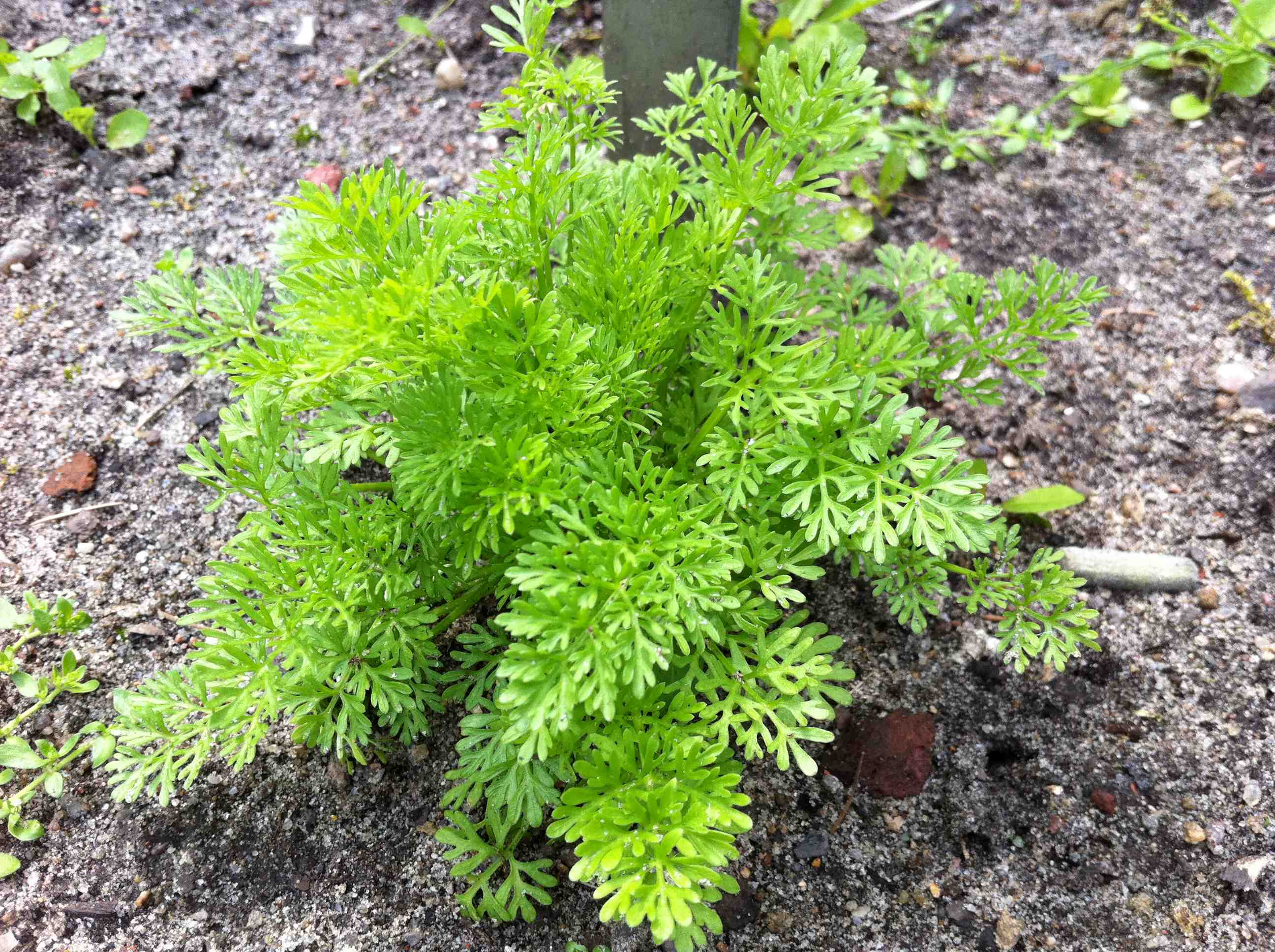 Ammi visnaga, plant without flowers